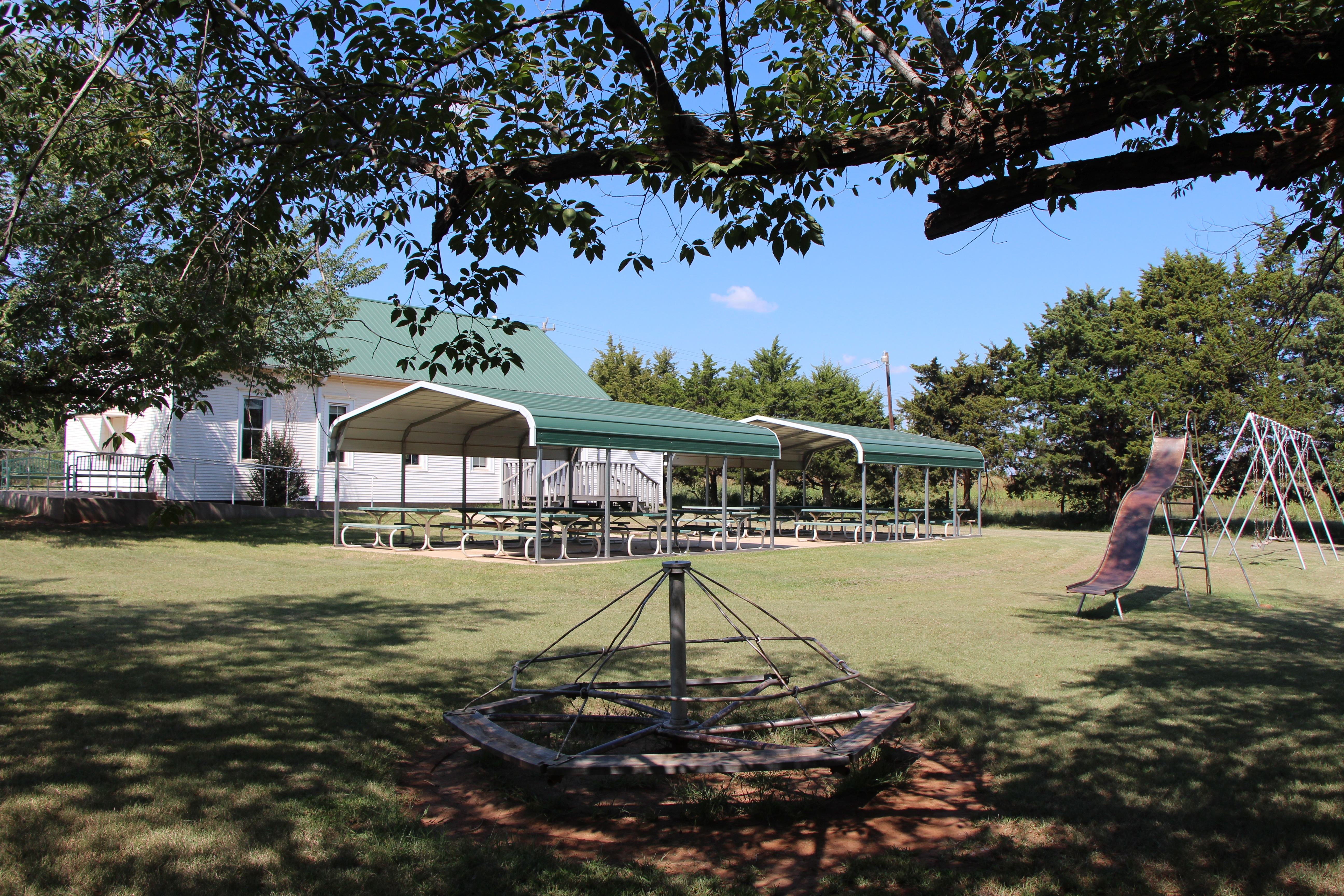 Cottonwood Community Center, Northwest of Stillwater Stillwater